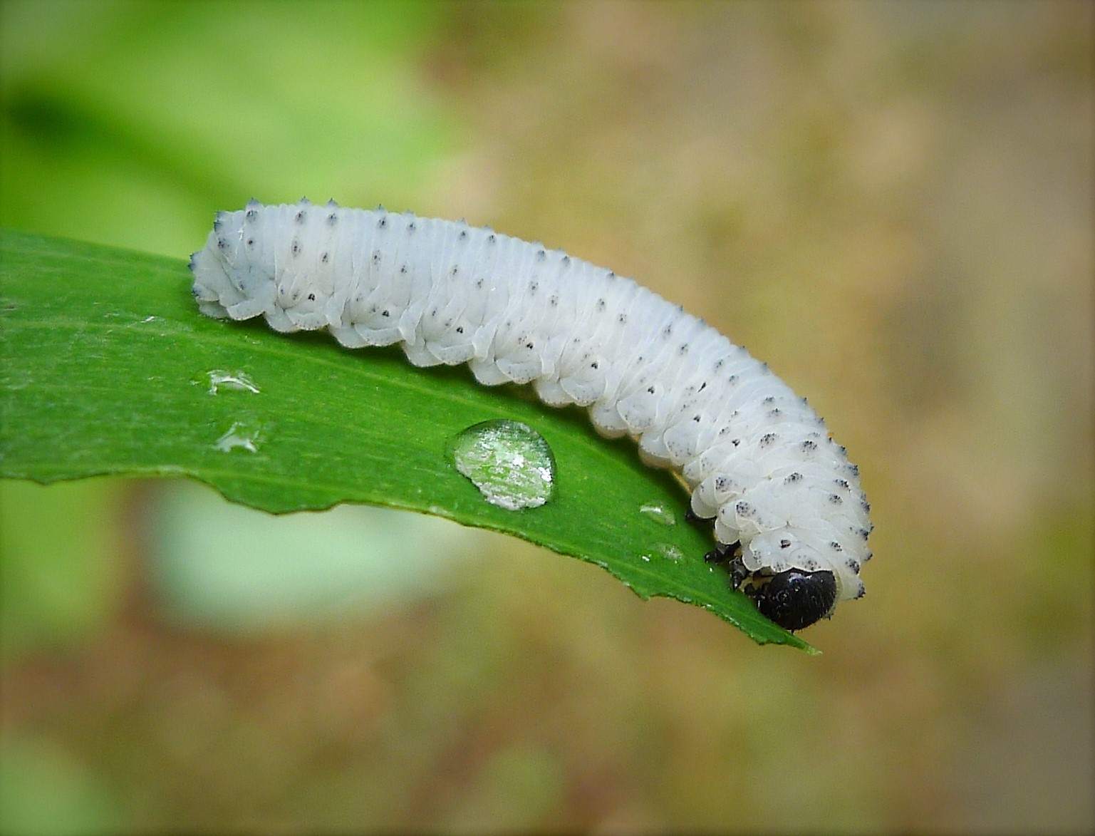 Cradley, Malvern Worcs. SO729470